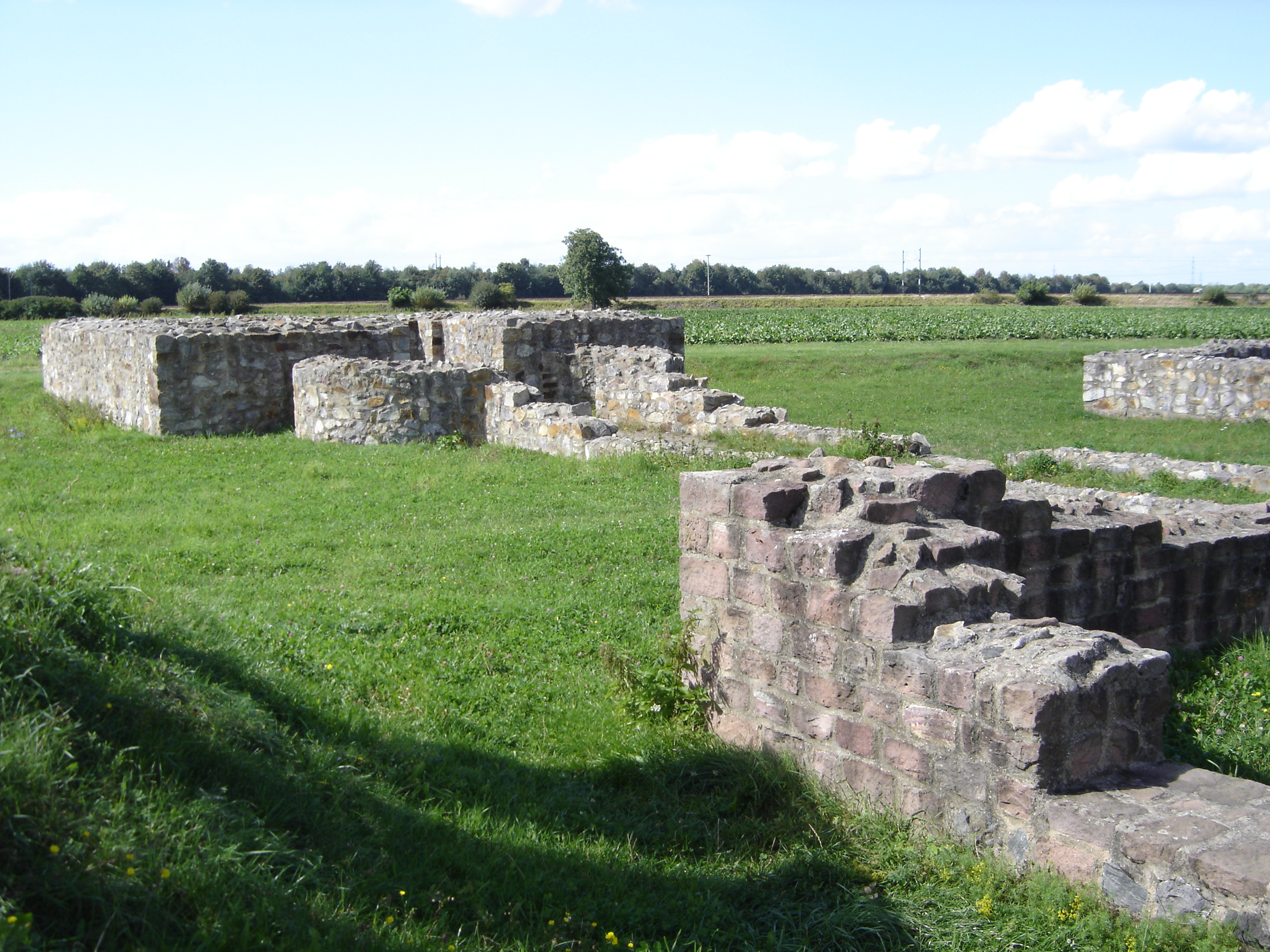 villa rusticae, roman farm building in Hirschberg-Großsachsen, Germany